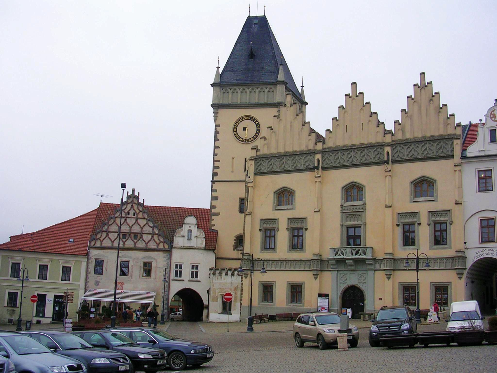 Tábor, the Czech Republic. The old town hall at Žižka Square.